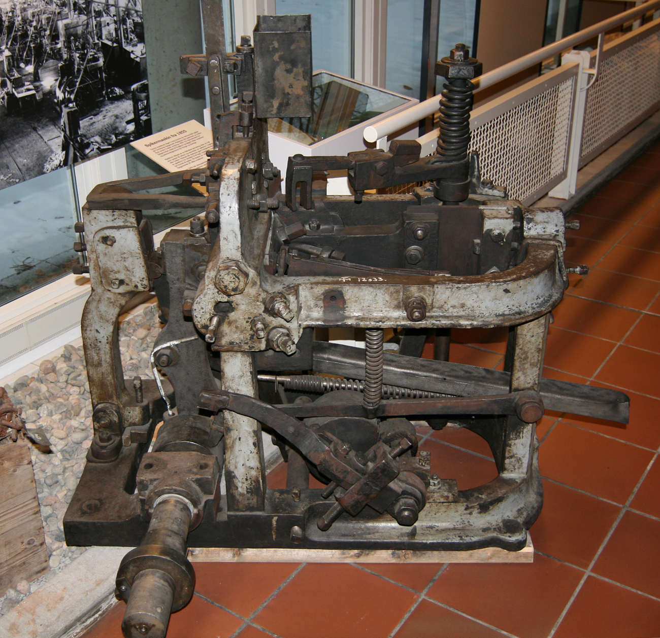 Machine for making cut nails, patented by Ezra Jenks Coates by 1850. Used at Christiania Spigerverk, Norway. Today at Norwegian Technology Museum, Oslo.